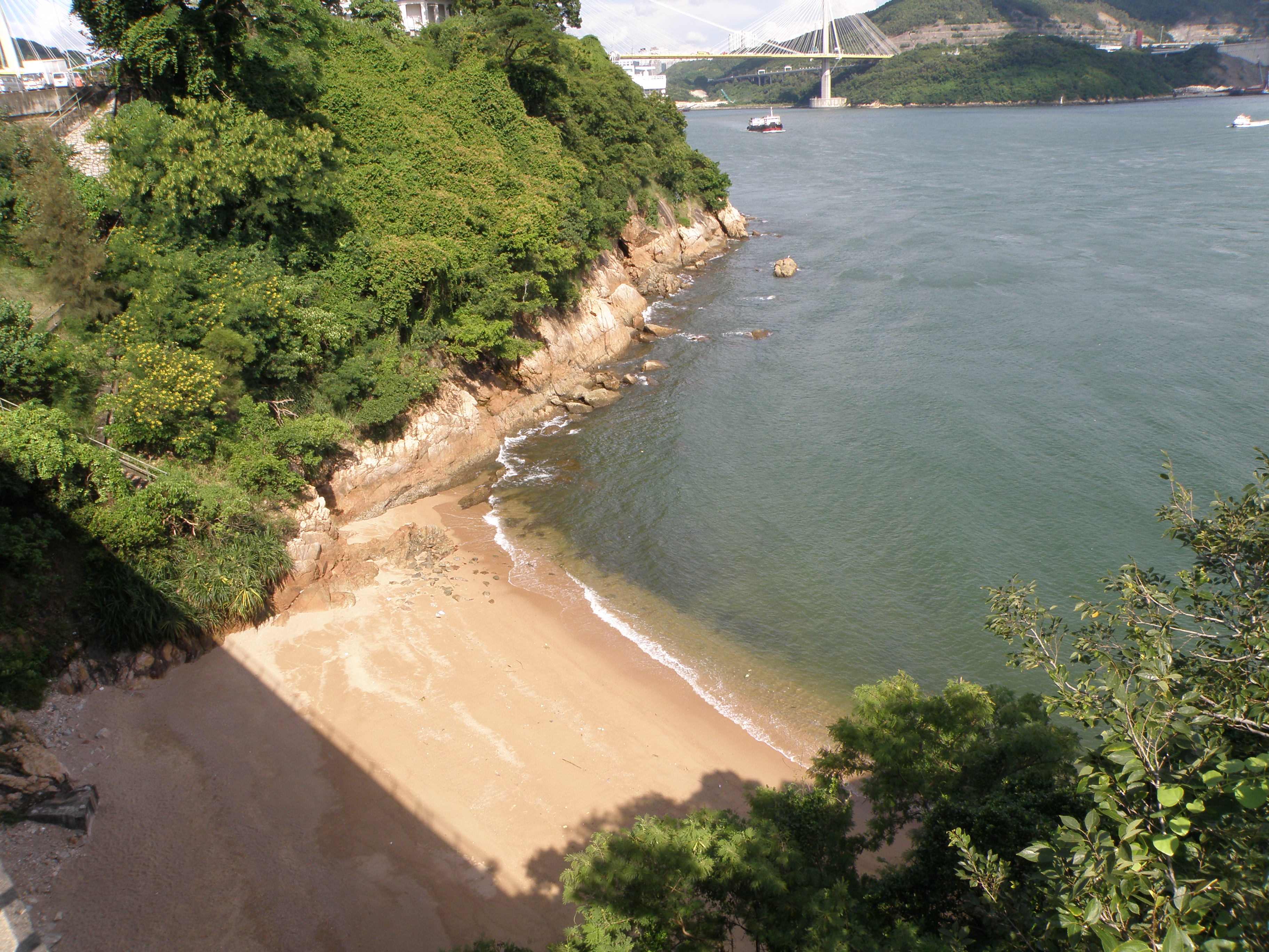 Gemini Beach in Ting Kau, Hong Kong.